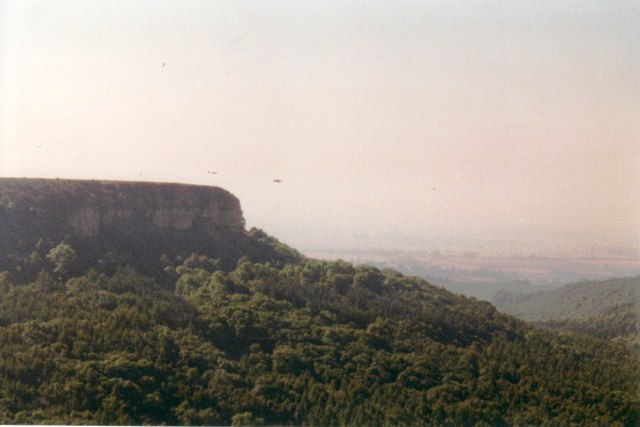 Gliding off Roulston Crag The Yorkshire Gliding Club operates from the Roulston Crag plateau. It offers a spectacular take-off. Here the towing plane has cleared the crag and has already dipped below its level. The attached glider is just getting airborne. Taken from over a mile away.